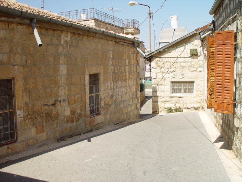 Jerusalem, Ohel Shlomo neighborhood